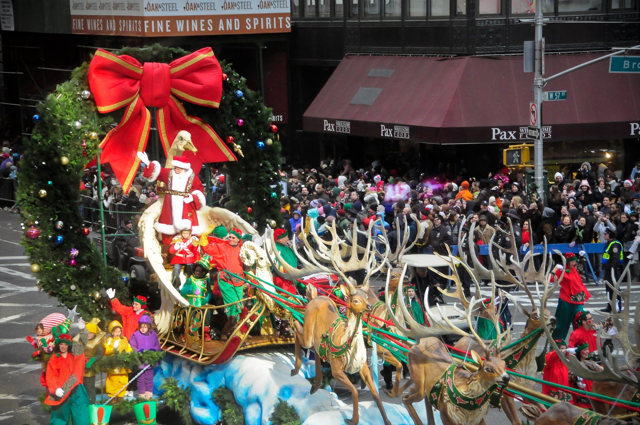 Santa Claus arrives, accompanied by his elves, on his sleigh pulled by reindeer at the climax of the Macy's Thanksgiving Day Parade in New York City. The intersection seen here is 57th and Broadway.